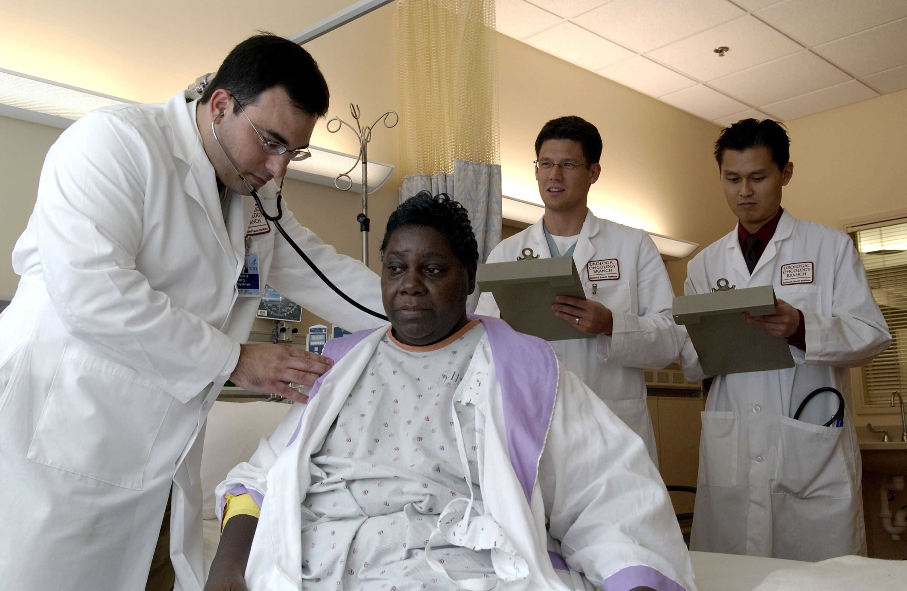 Title Doctor Examines Patient with Stethoscope Description Dr. Peter Pinto with the Urologic Oncology Branch at the National Cancer Institute (NCI) examines an African-American adult female patient with a stethoscope, while two male attending physicians take notes. Topics/Categories Locations -- Clinic/Hospital People -- Adult People -- Health Professional and Patient Type Color, Photo Source National Cancer Institute